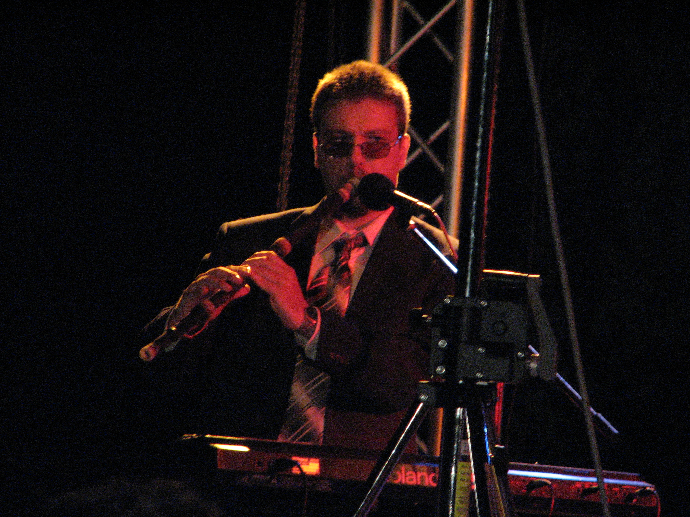 Nikolay Barovsky in a Balkandji concert on the annual "Gradat i az" (Bulgarian: Градът и аз, meaning "The City and Me") festival in Sofia, Bulgaria.